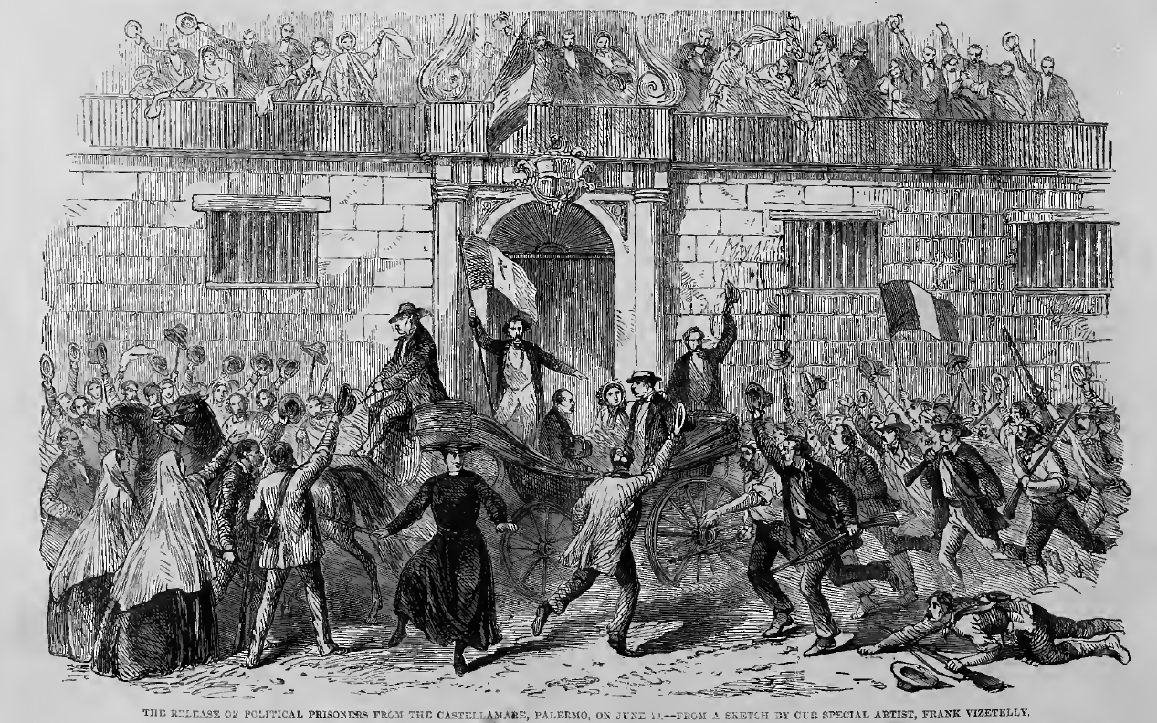 Relase of political prisoners from Borbonic prison in palermo after Garabaldi victory